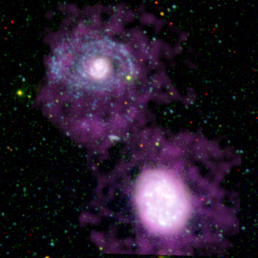 This image shows two companion galaxies, NGC 4625 (top) and NGC 4618 (bottom), and their surrounding cocoons of cool hydrogen gas (purple). The huge set of spiral arms on NGC 4625 (blue) was discovered by the ultraviolet eyes of NASA's Galaxy Evolution Explorer. Though these arms are nearly invisible when viewed in optical light, they glow brightly in ultraviolet. This is because they are bustling with hot, newborn stars that radiate primarily ultraviolet light. The vibrant spiral arms are also quite lengthy, stretching out to a distance four times the size of the galaxy's core. They are part of the largest ultraviolet galactic disk discovered so far. Astronomers do not know why NGC 4625 grew arms while NGC 4618 did not. The purple nebulosity shown here illustrates that hydrogen gas - an ingredient of star formation - is diffusely distributed around both galaxies. This means that other unknown factors led to the development of the arms of NGC 4625. Located 31 million light-years away in the constellation Canes Venatici, NGC 4625 is the closest galaxy ever seen with such a young halo of arms. It is slightly smaller than our Milky Way, both in size and mass. However, the fact that this galaxy's disk is forming stars very actively suggests that it might evolve into a more massive and mature galaxy resembling our own. The image is composed of ultraviolet, visible-light and radio data, from the Galaxy Evolution Explorer, the California Institute of Technology's Digitized Sky Survey, and the Westerbork Synthesis Radio Telescope, the Netherlands, respectively. Near-ultraviolet light is colored green; far-ultraviolet light is colored blue; and optical light is colored red. Radio emissions are colored purple.